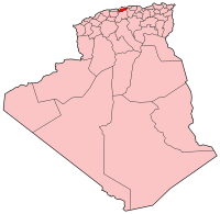 Map of Algeria showing Blida province